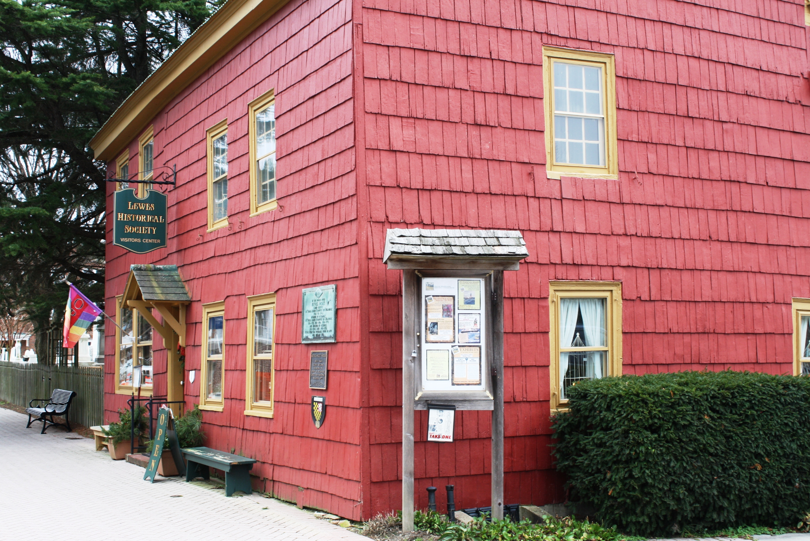 Second & Mulberry Streets, Lewes, Delaware